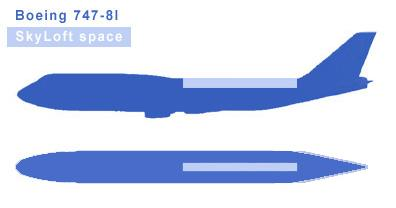 747-8I